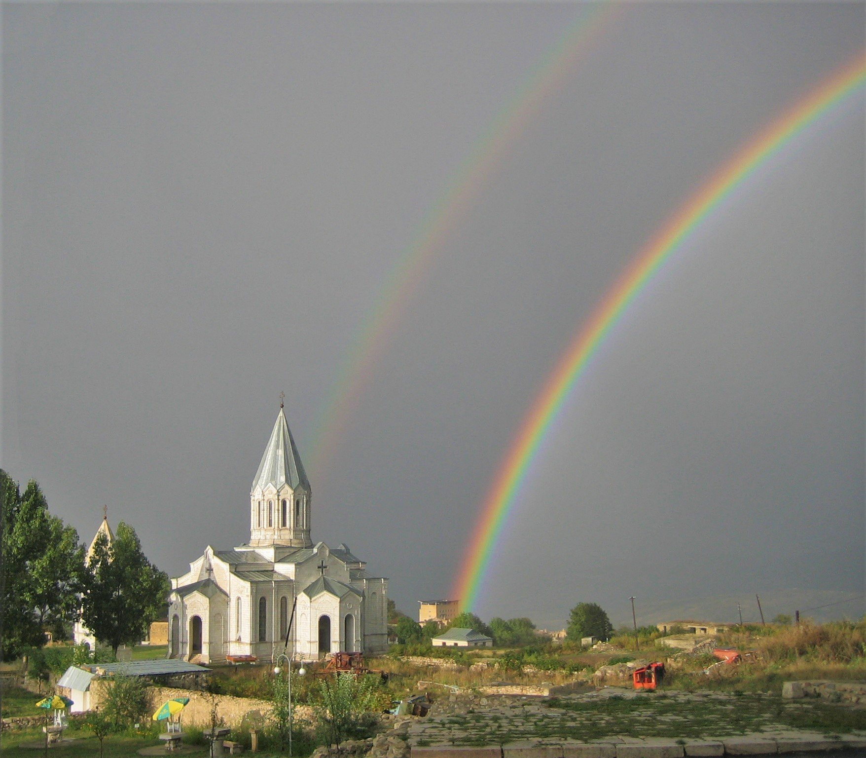 A double rainbow over the Ghazanchetsots Cathedral, in Shushi, Artsakh (Nagorno-Karabakh Republic), taken from Hotel Shushi.